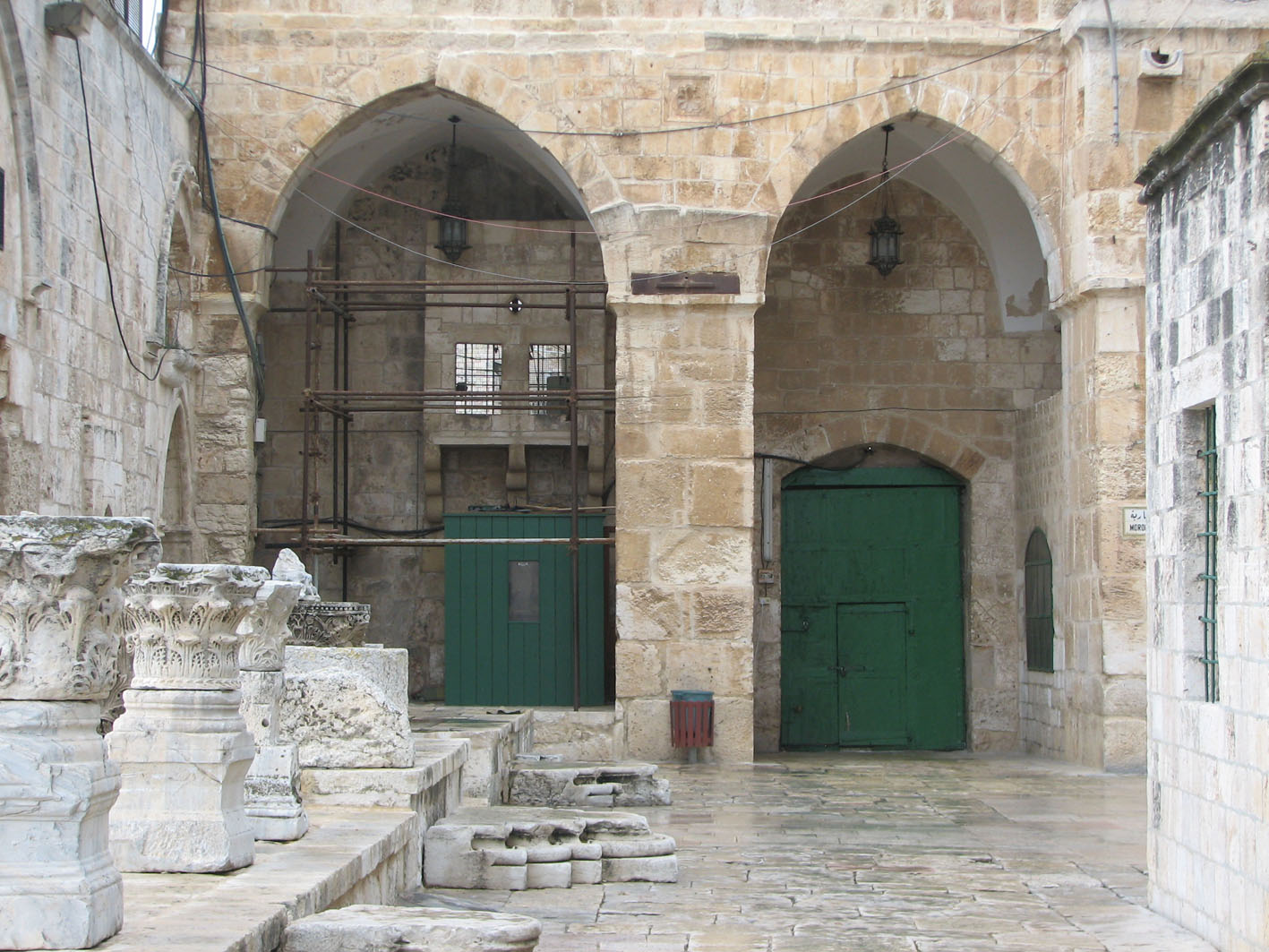 Al-Aqsa Mosque